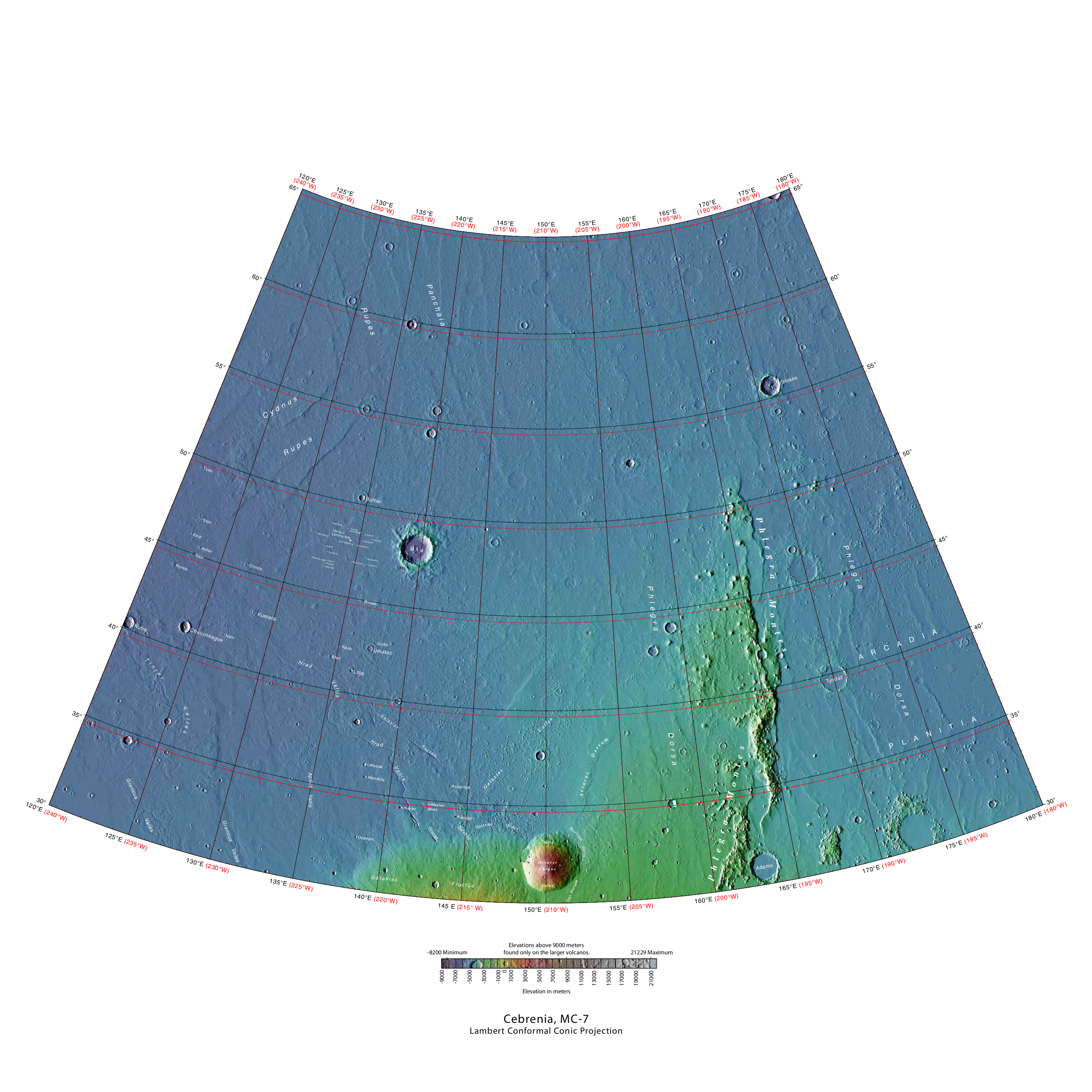 MOLA Topographic Map of Cabrenia Quadrangle (MC-7) on the planet Mars. NOTE: Converted the original PDF file to a PNG File (via GIMP v2.8.4 program) - and uploaded to Wikimedia Commons.